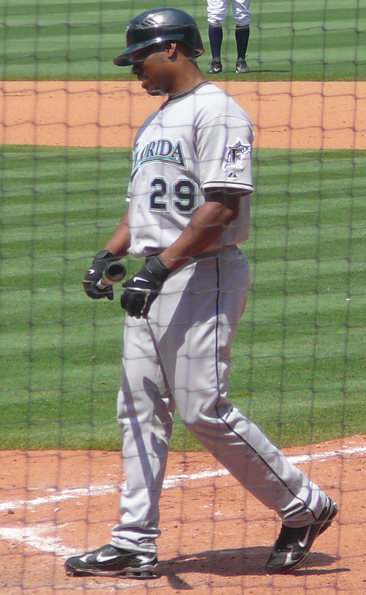 Please attribute photo with author's name if used somewhere other than Wikipedia. 19:59, 3 August 2008 . . Chrisjnelson . . 519×844 (443 KB)